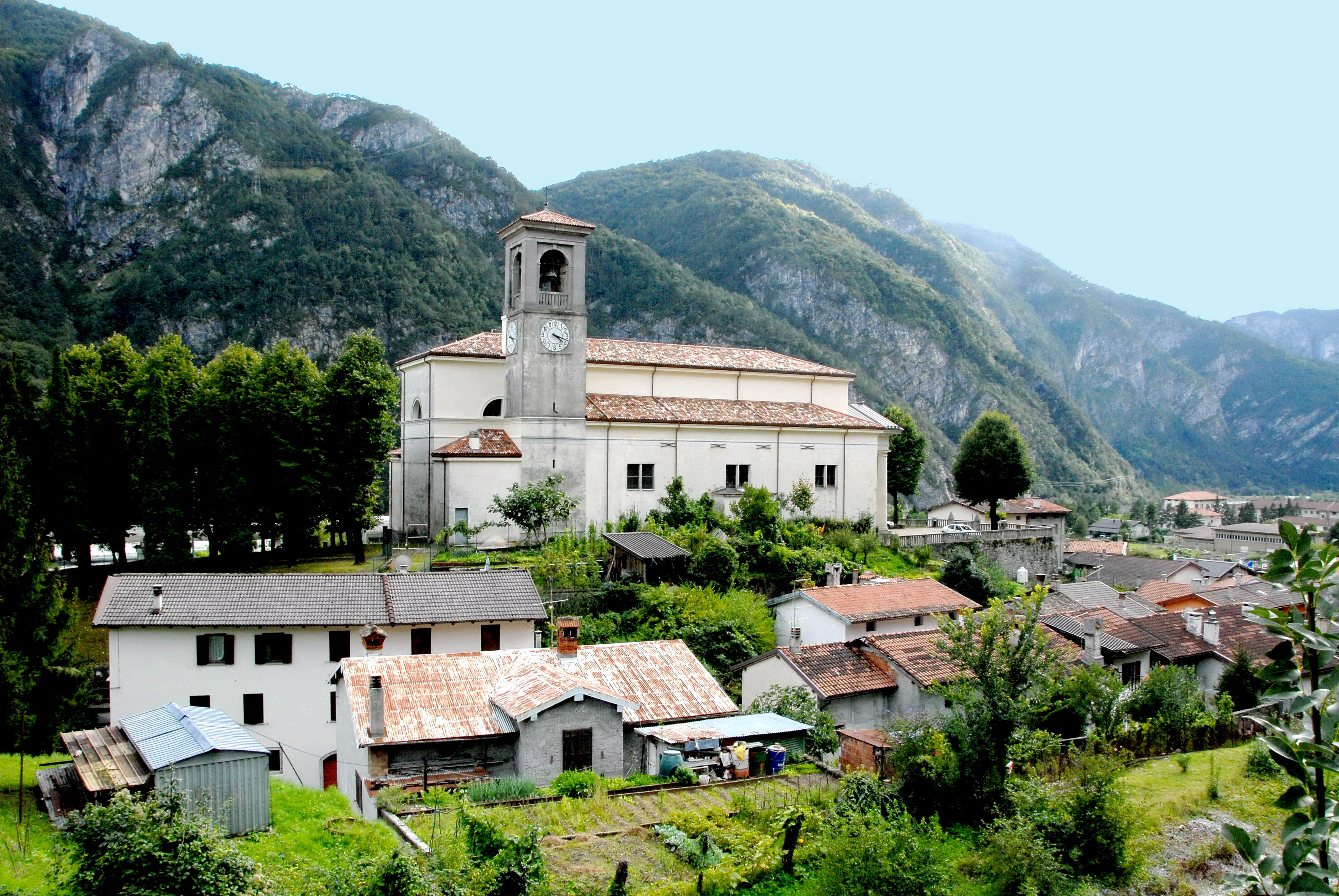 Main locality in the community Chiusaforte, region Friuli Venezia-Giulia, Italy